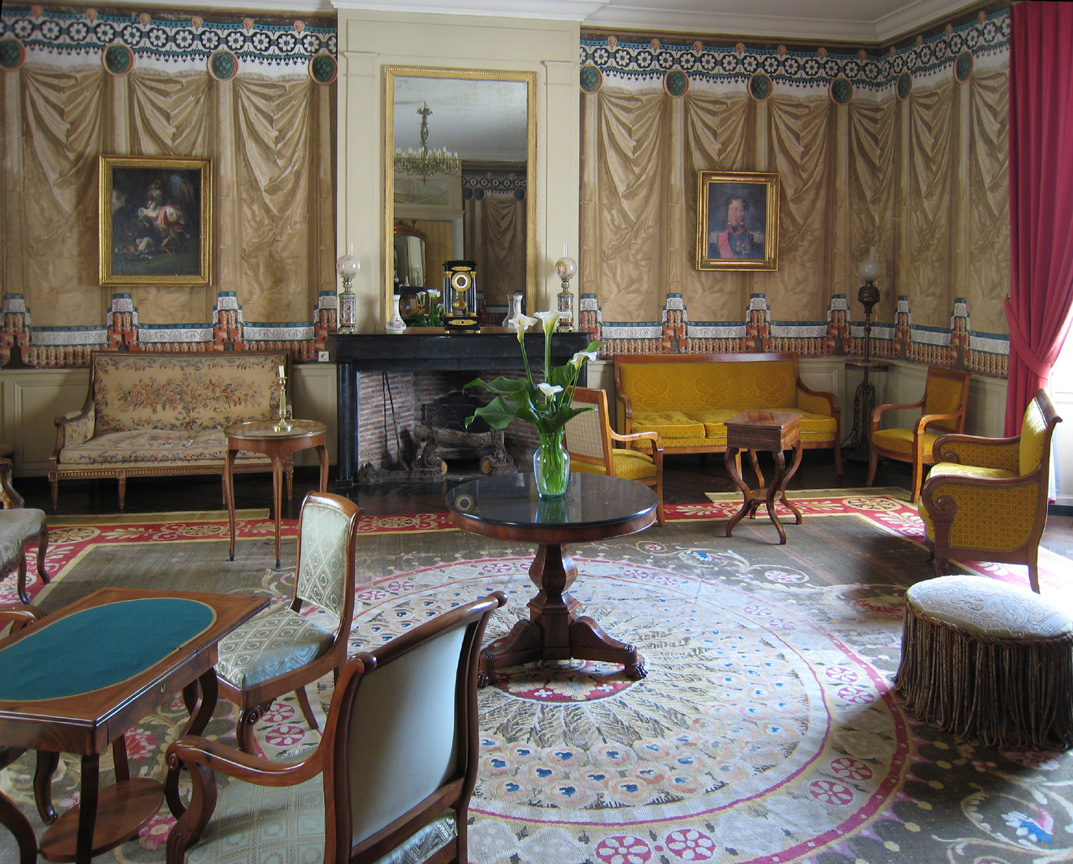 Castle Saché near the town of Saché in France, grand parlor